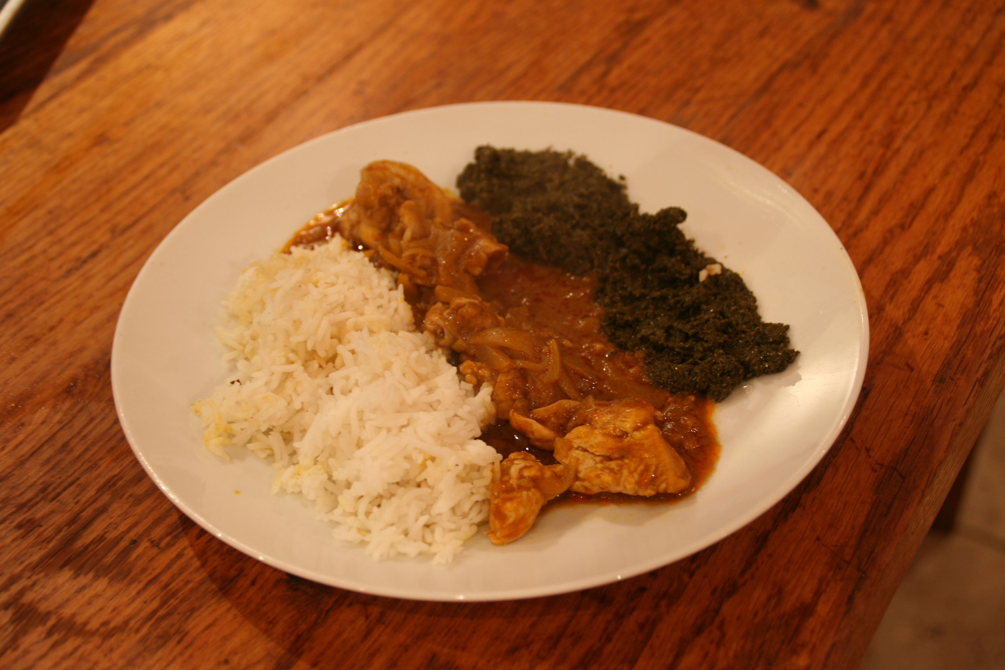 A dish of Poulet à la moambe (Chicken with Moambe sauce), considered the national dish of the Democratic Republic of the Congo, served with rice and Saka Saka (crushed Manioc leaves). From left to right: rice, Moambe chicken, Saka Saka.